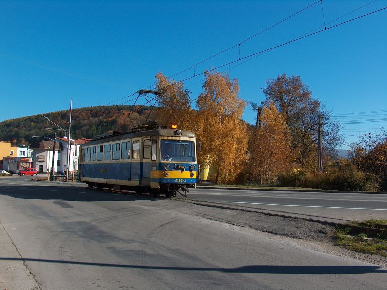 Trenčín electric railway